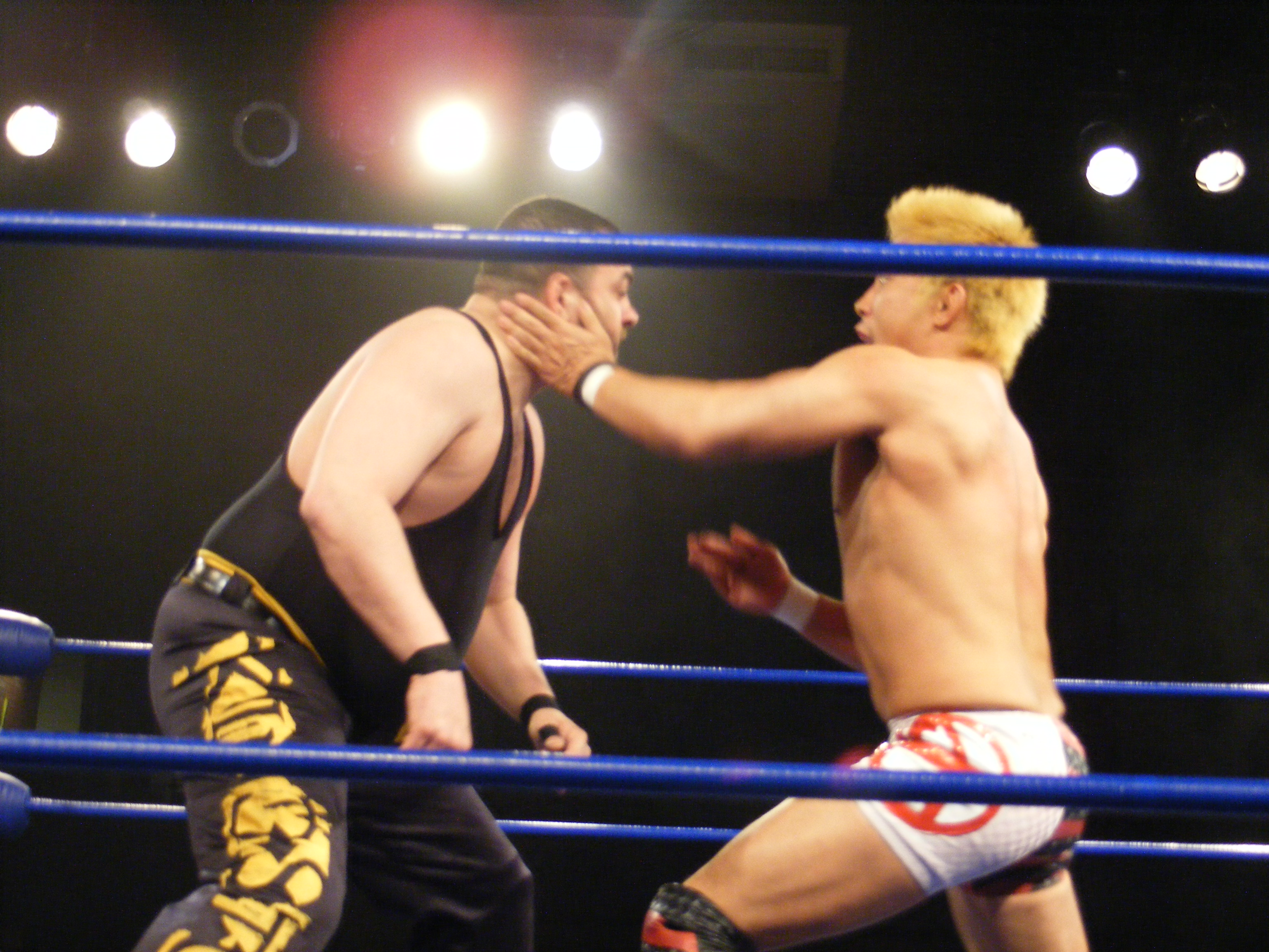 Akira Tozawa wrestles Eddie Kingston during Night Three of CHIKARA's 2011 King of Trios tournament on April 17, 2012.